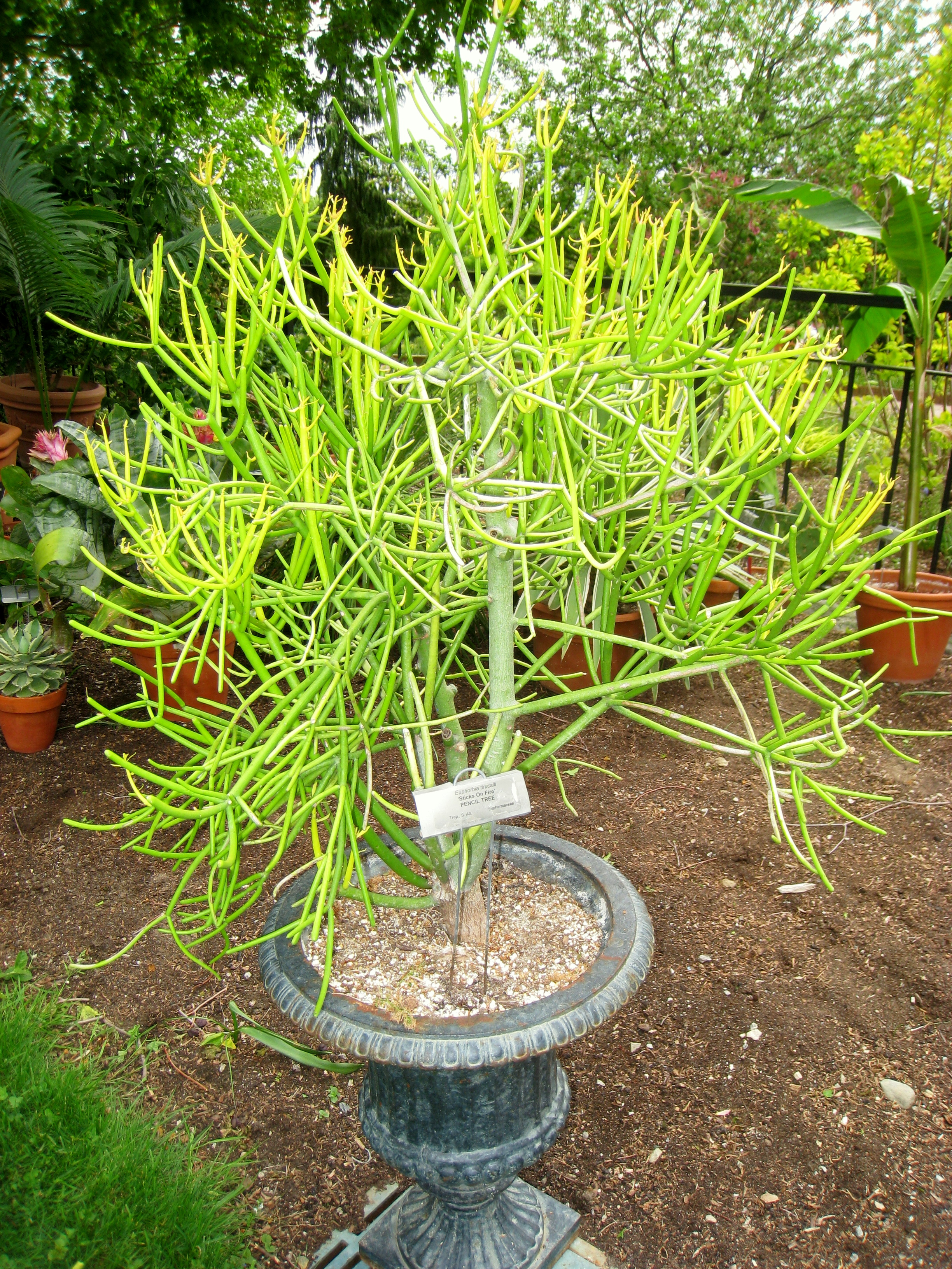 Euphorbia tirucalli, in the Tower Hill Botanic Garden, Boylston, Massachusetts, USA.